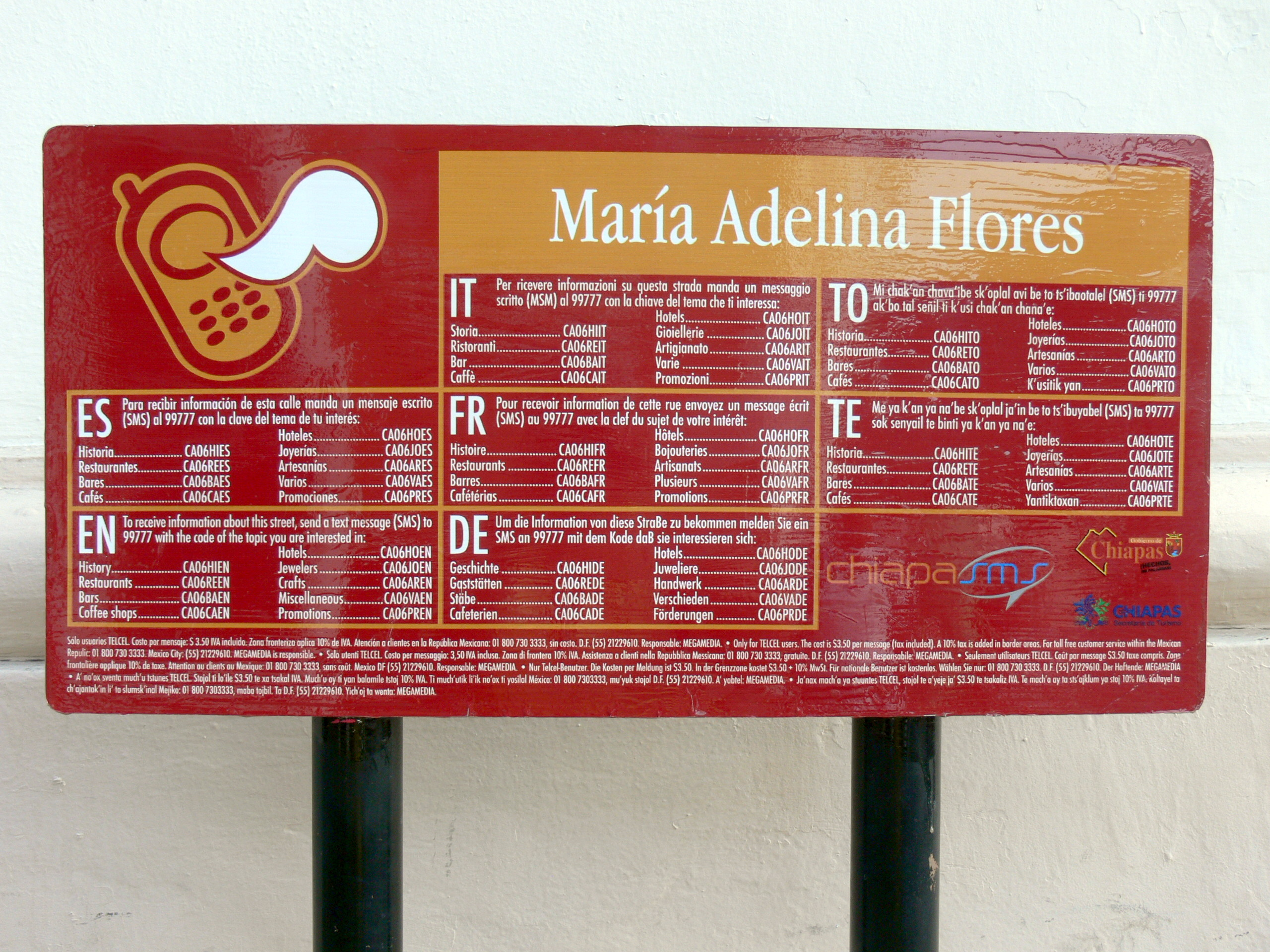 San Cristobal de las Casas. Street information system.